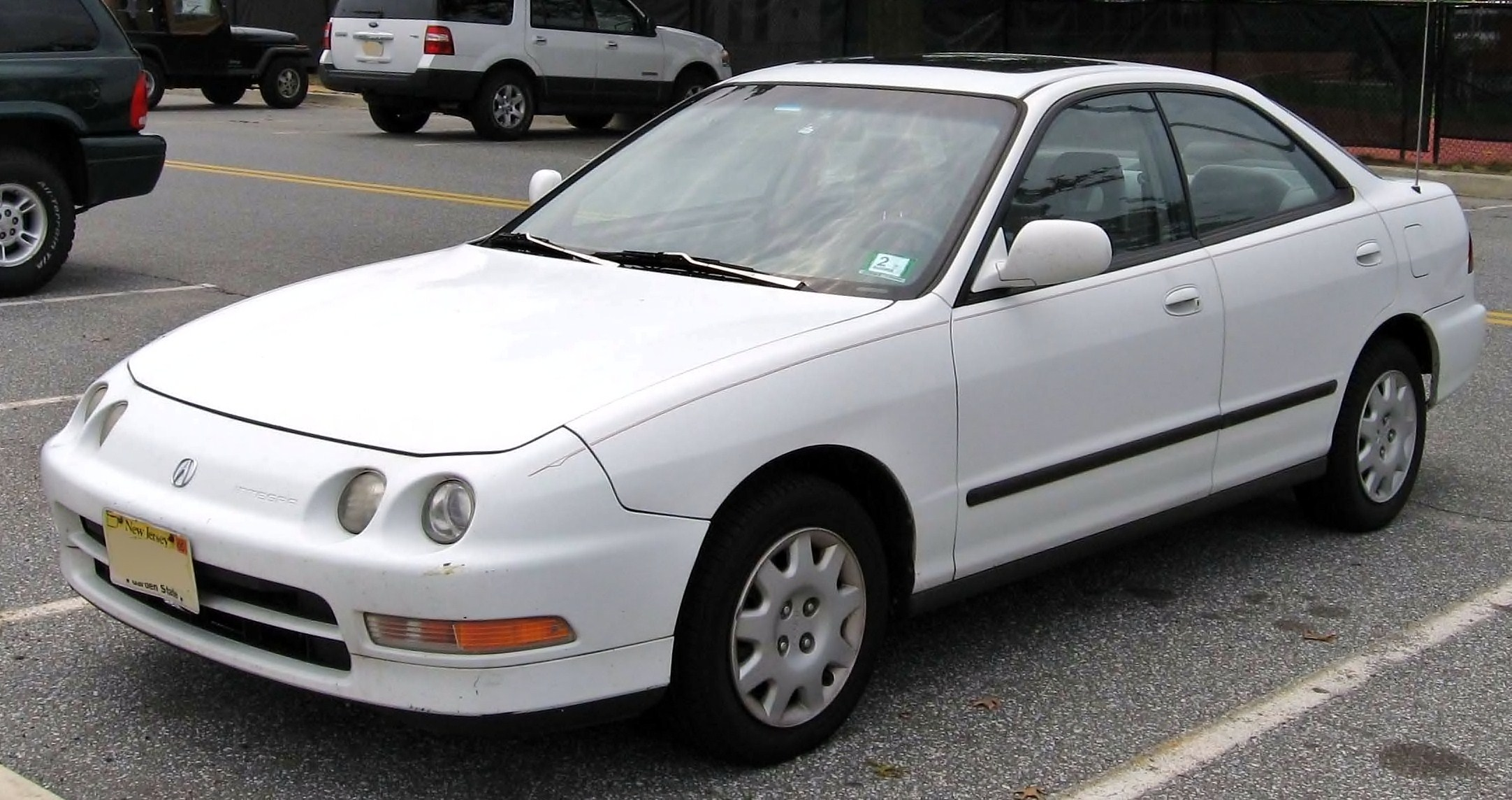 1994-2001 Acura Integra photographed in USA.